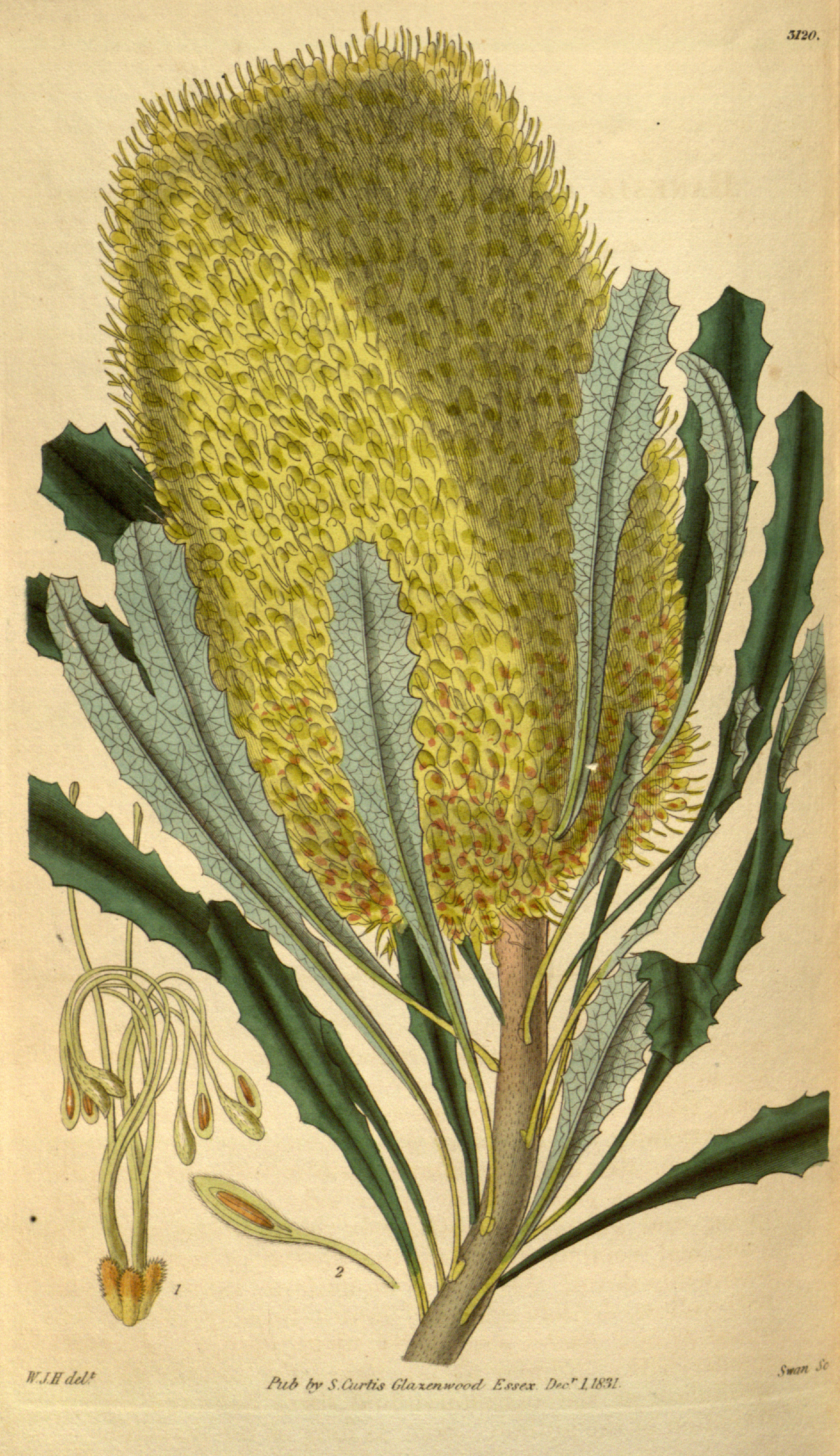 This is an image of Plate 3120 from Volume 58 of Curtis's Botanical Magazine, entitled "Banksia media. Intermediate Banksia." The image depicted is Banksia media (Southern Plains Banksia).